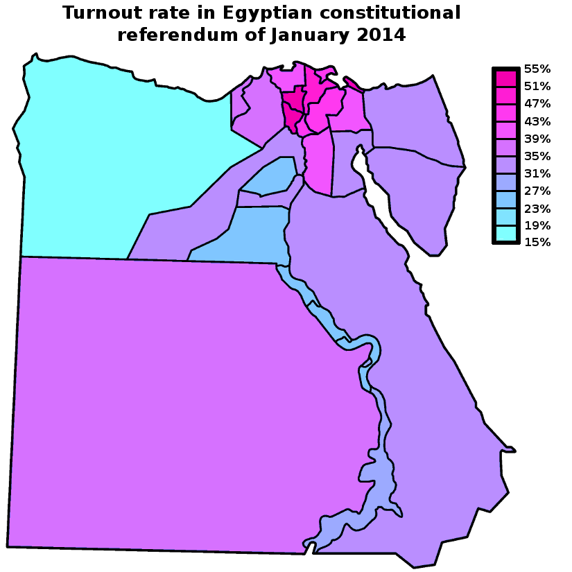 Turnout rate by governorate for the Egyptian constitutional referendum of 14-15 January 2014. Source for data